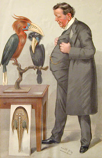 Caricature of Sir Edwin Ray Lankester KCB, FRS. Caption read "His religion is the worship of all sorts of winged and finny freaks".